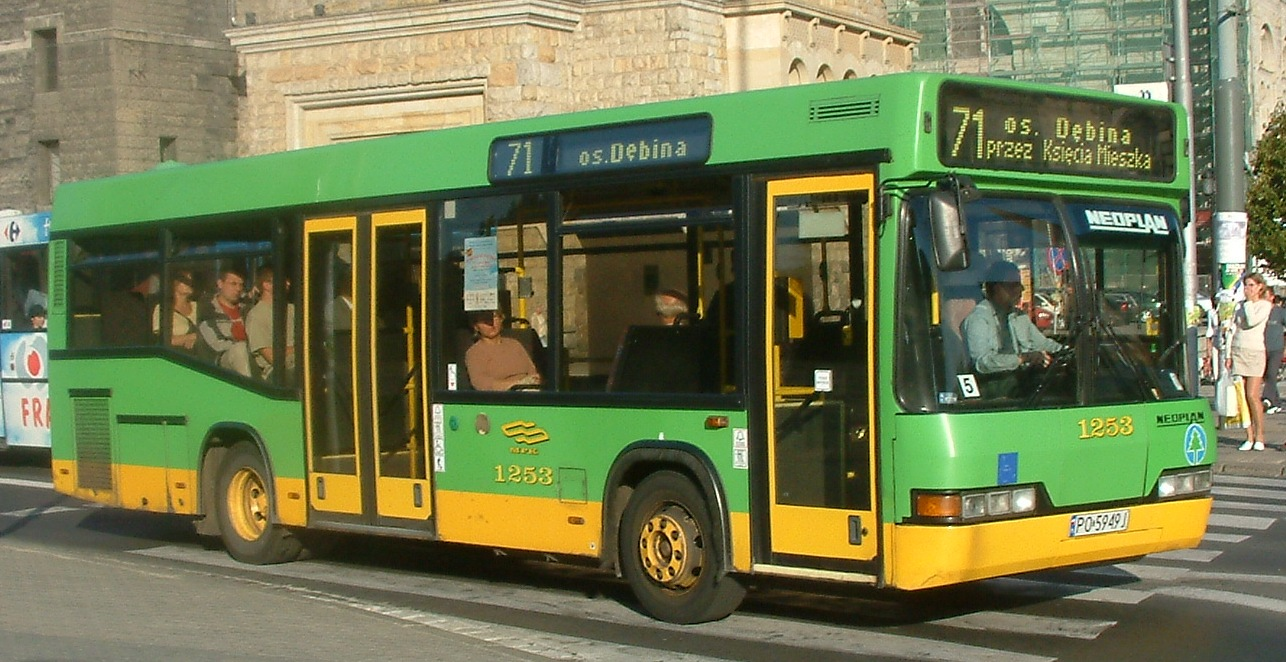 Neoplan N4009 (#1253) in Poznań, Poland. Built 1996.